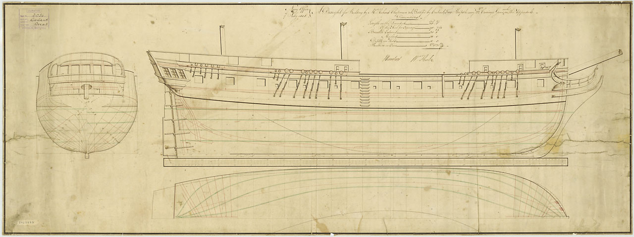 GARLAND 1807 lines